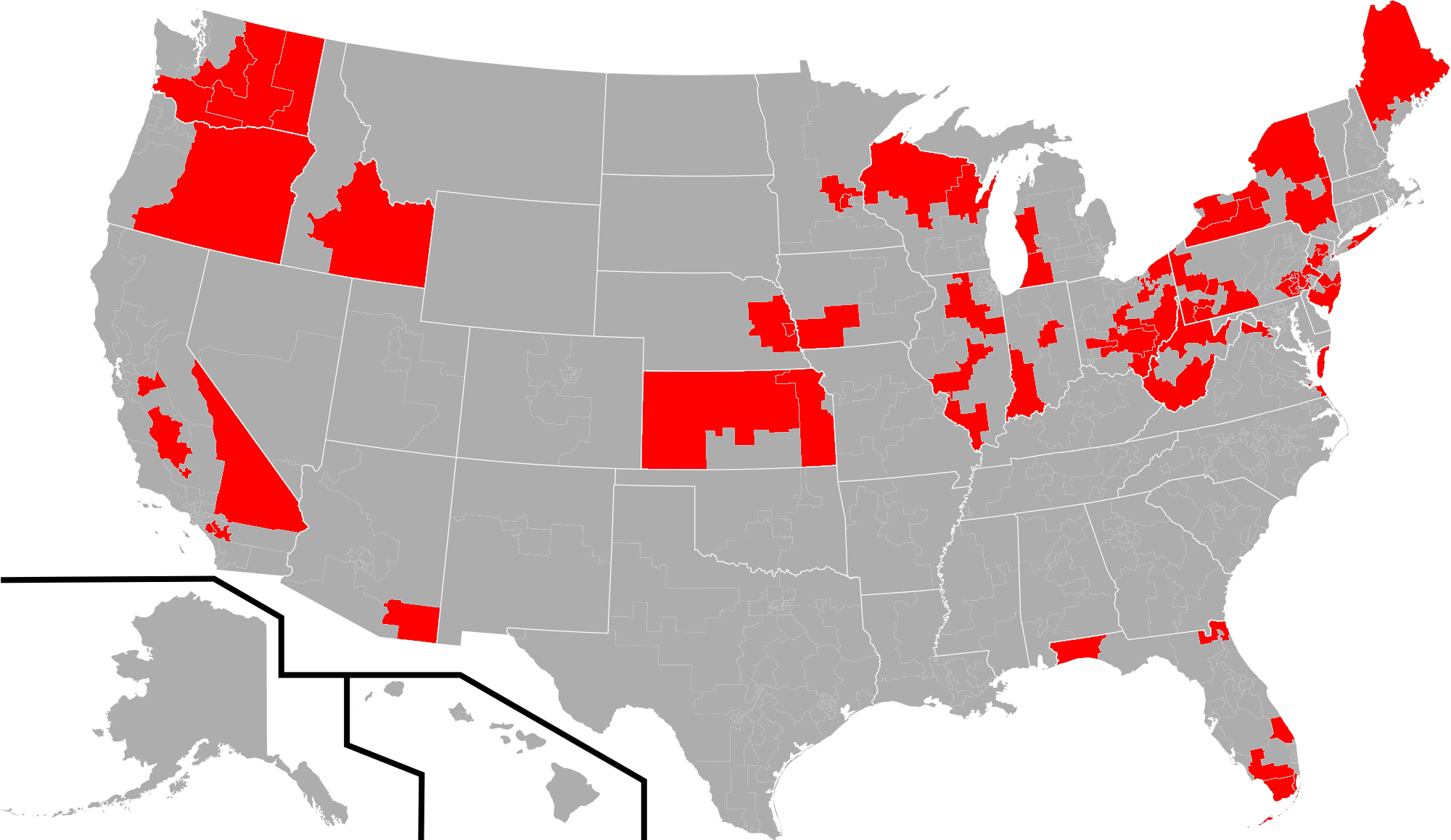 Members of the Republican Main Street Partnership for the 115th United States Congress